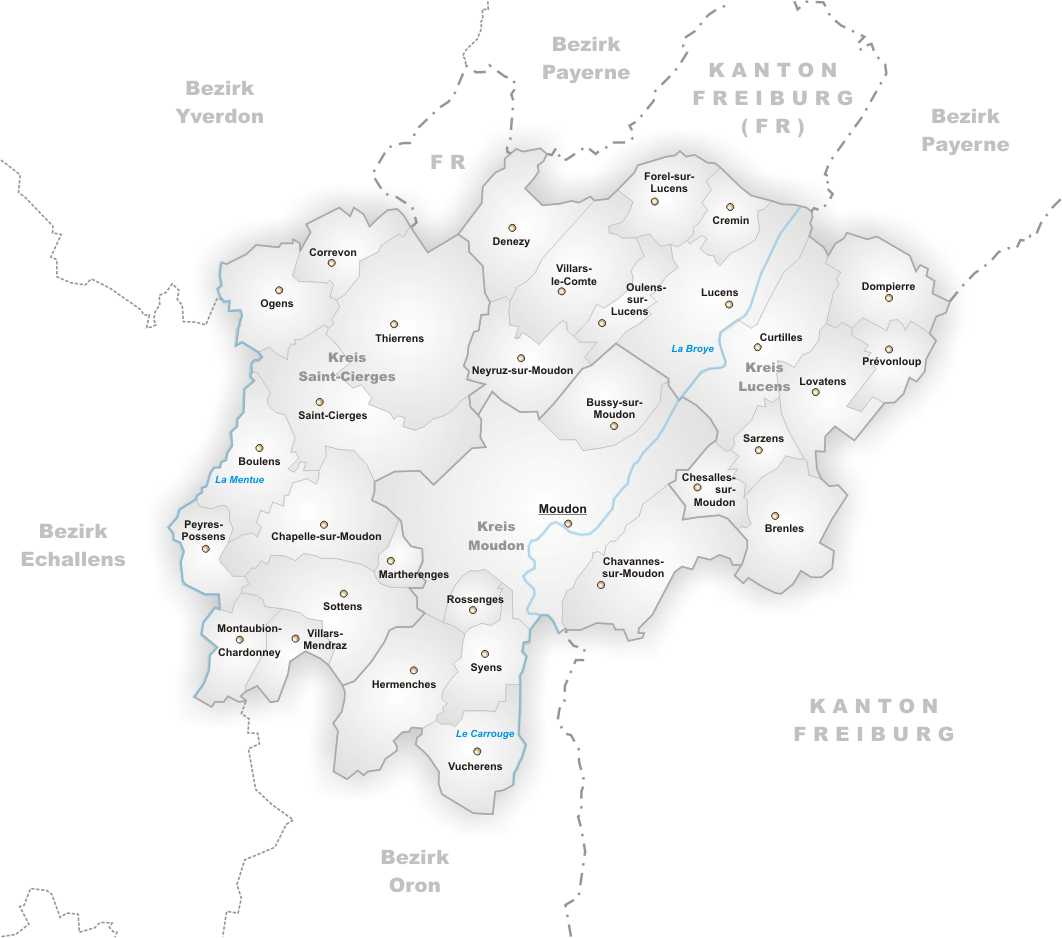 Municipalities of District Moudon until 2007